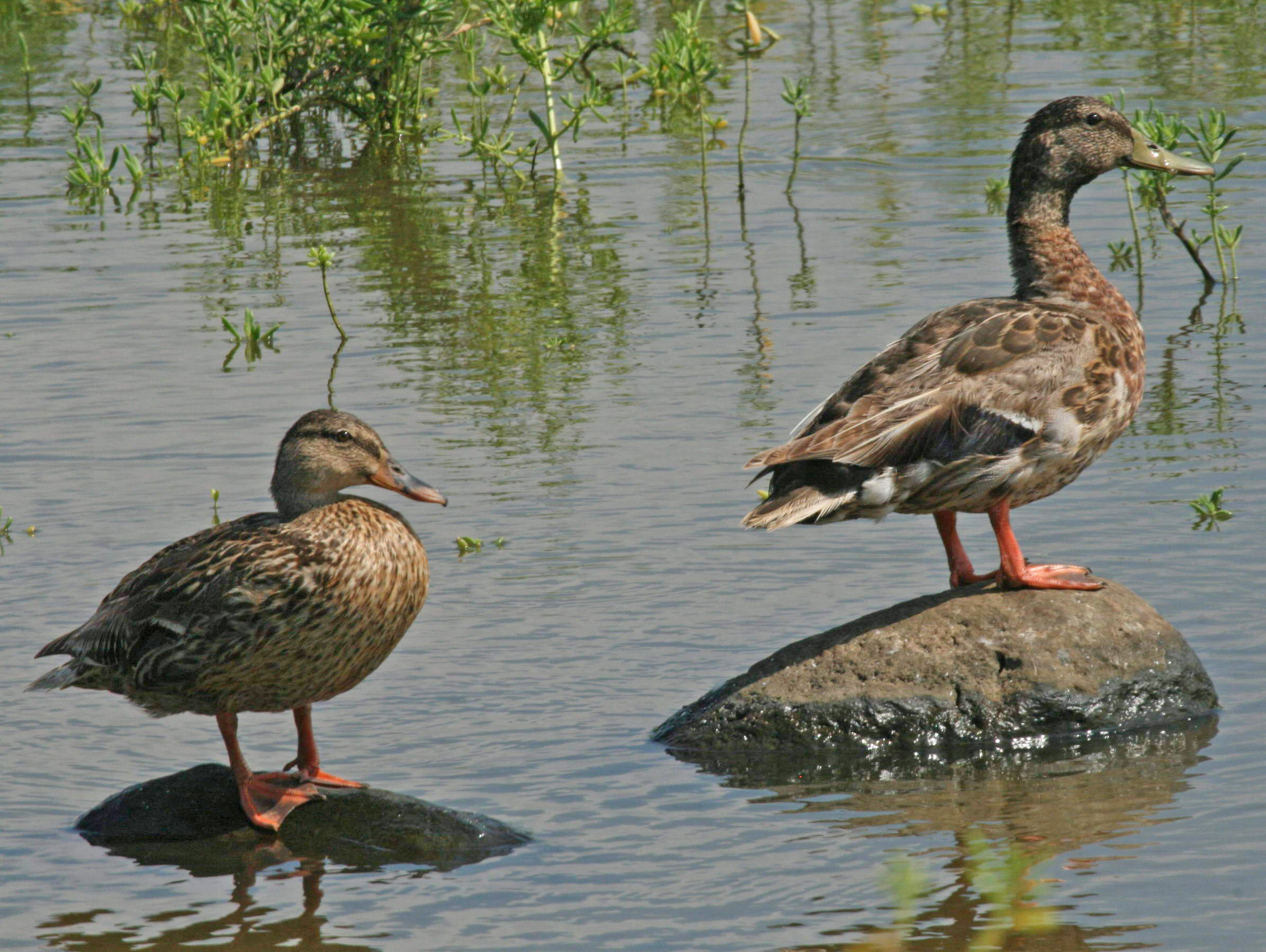 Hawaiian Duck (Anas wyvilliana) - Maui, Hawaii. Female duck on left and Male on the right. Hawaiian Ducks often interbred with Mallards so perhaps these ducks are hybrids.